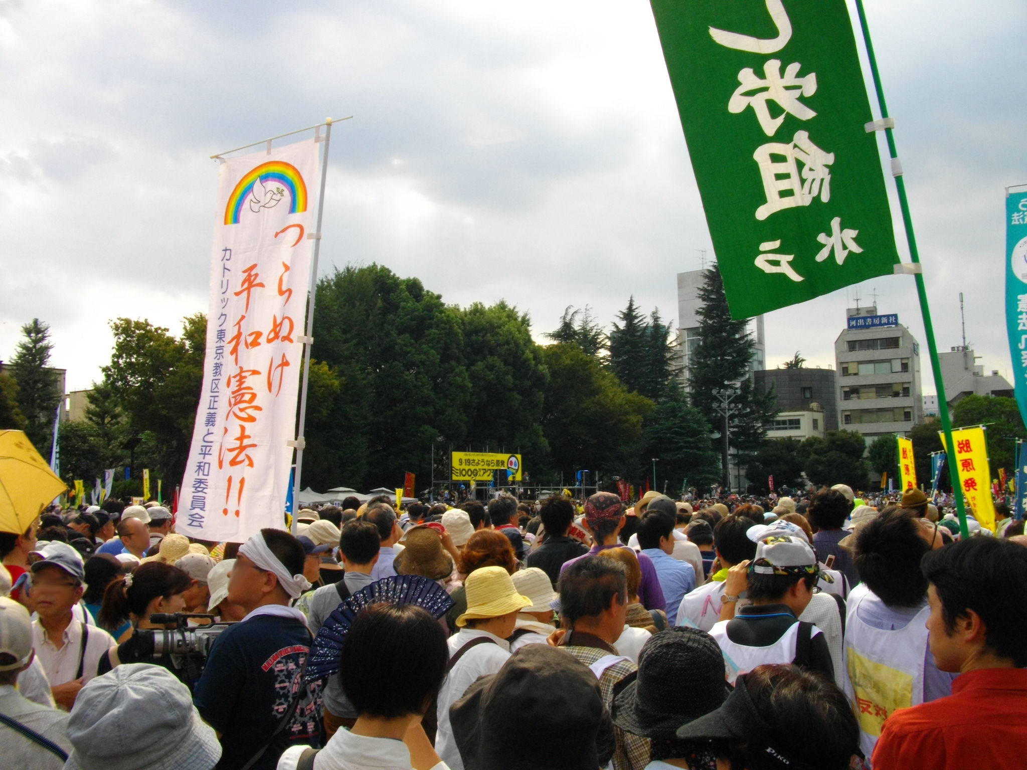 Anti-Nuclear Power Plant Rally on 19 September 2011 at Meiji Shrine Outer Garden